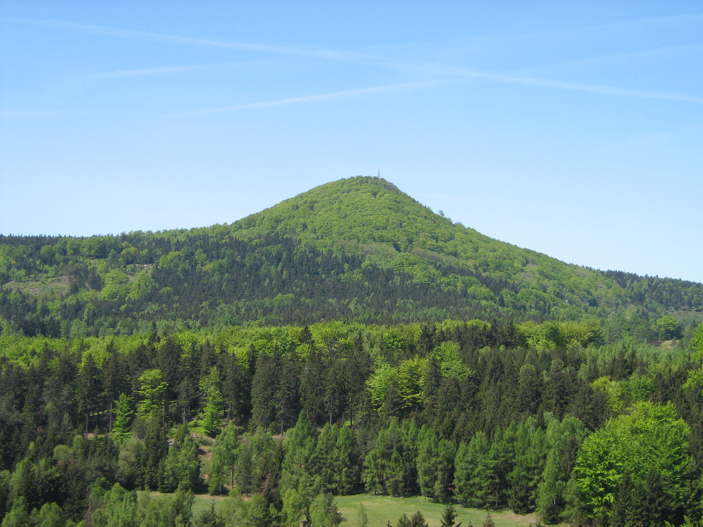 The mountain lausche near the village Myslivny (Mařenice) in the Lusatian mountains.